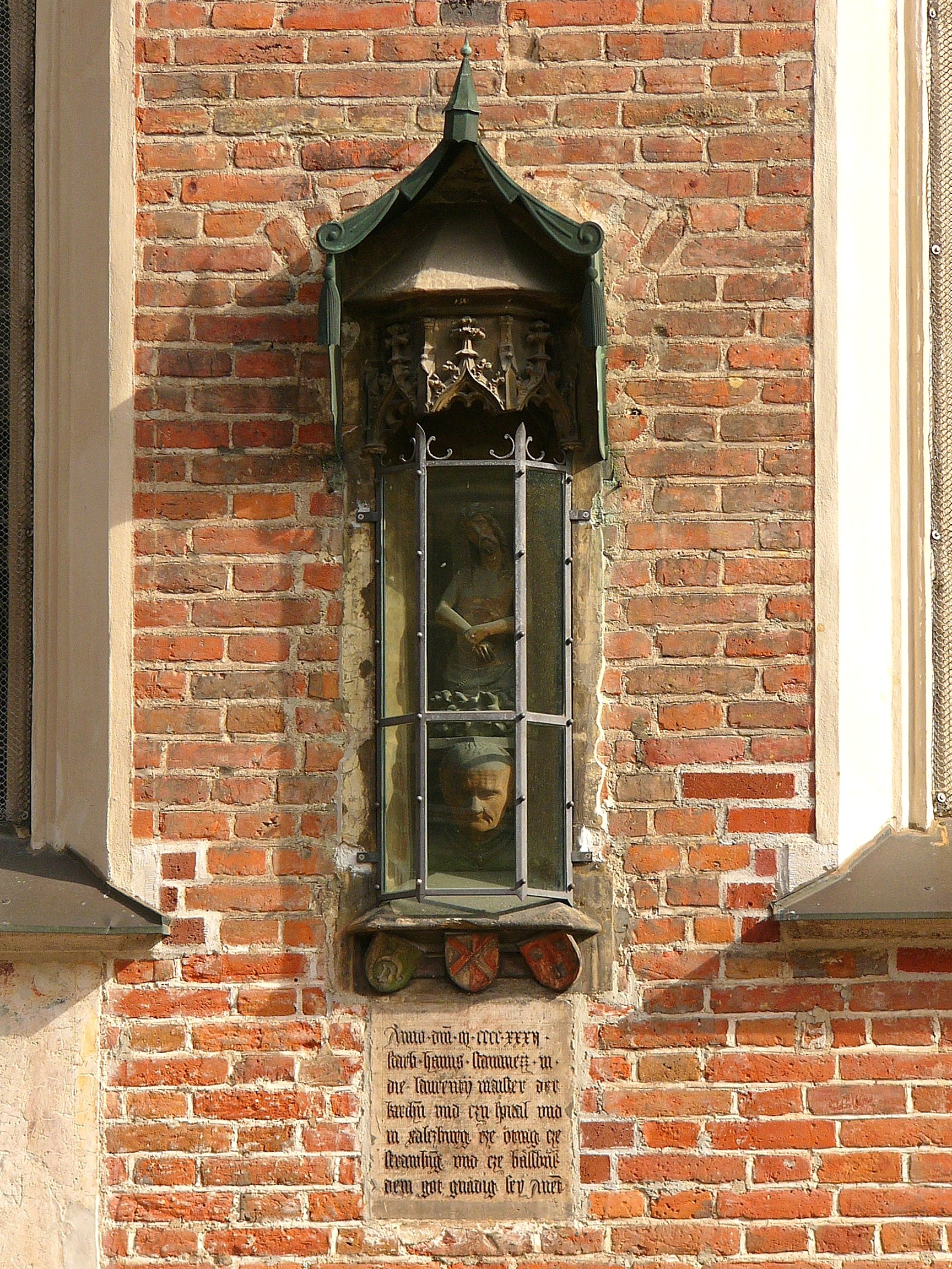 Landshut, Church of St Martin and Castulus. Memorial stone to Hans of Burghausen on the outer wall of the southern aisle.